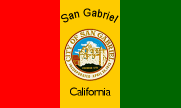 City flag of San Gabriel, Calfornia.